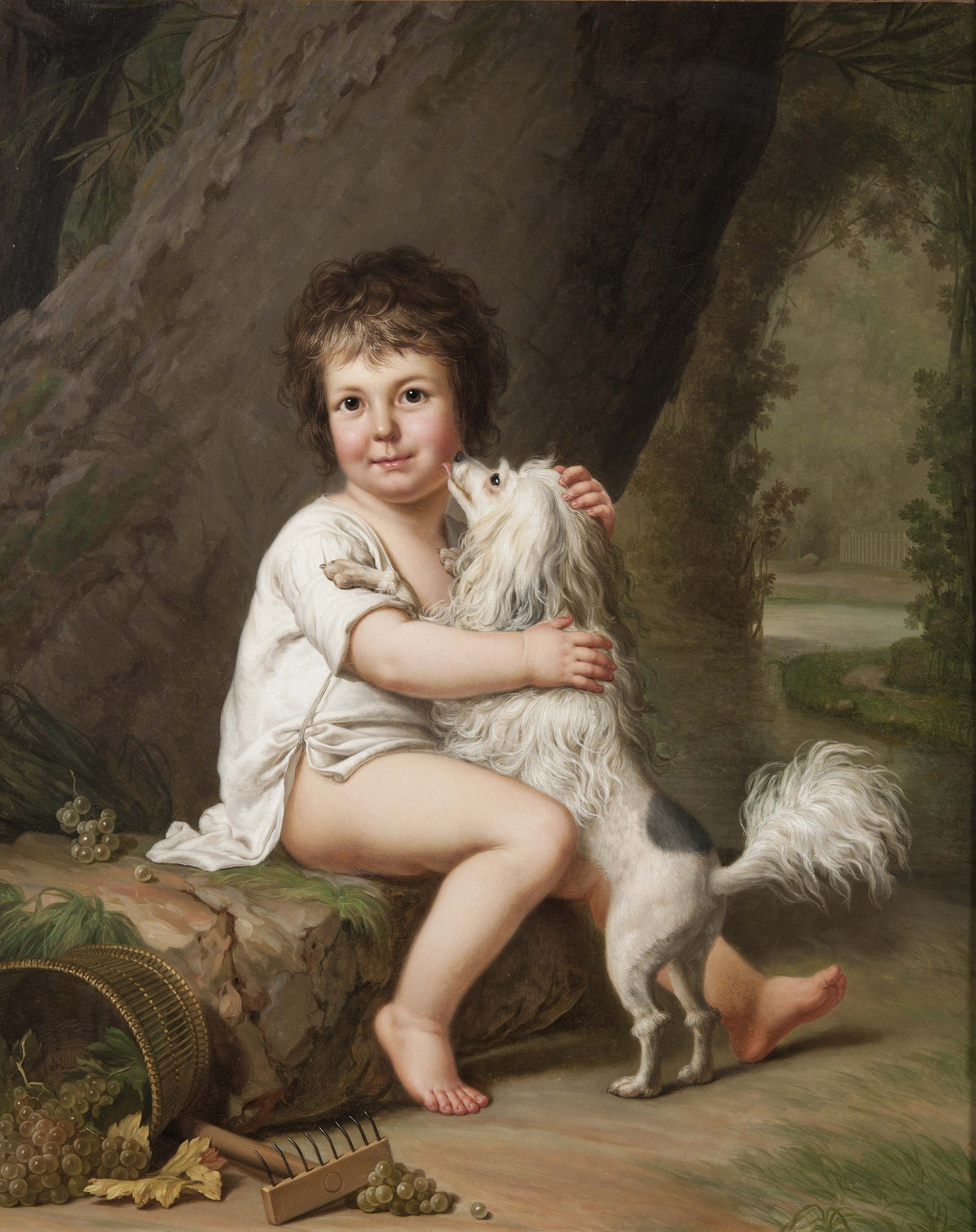 Portrait of the young Henri Bertholet-Campan (1784-1821) with the dog Aline.